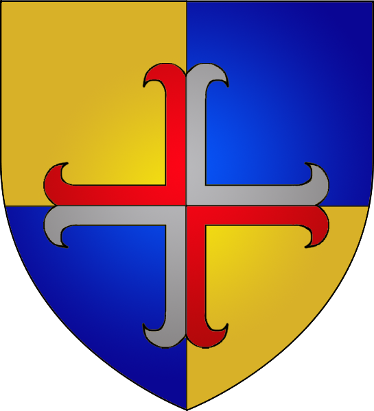 Coat of arms of the municipality of Manternach, Luxembourg